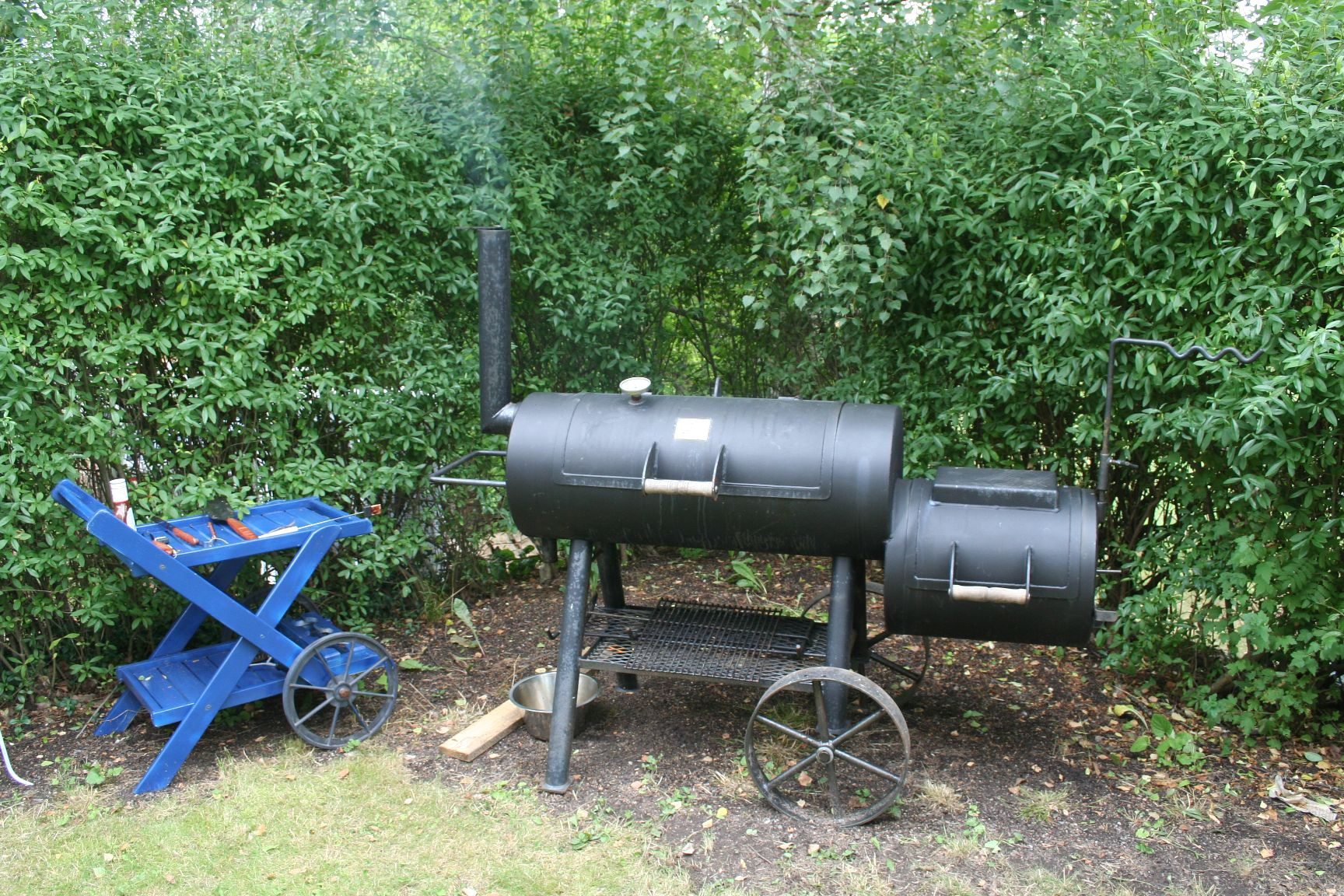 Joe´s BBQ, 16” Longhorn (barbeque smoker)